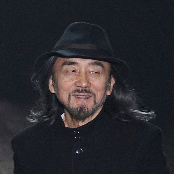 Yohji Yamamoto receives applause at the conclusion of his Fall/Winter 2010 show for Y-3 at New York Fashion Week, February 2010